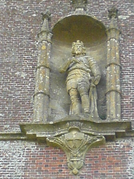 King Alfred's Tower in Brewham, Somerset, near Stourhead, Wiltshire, England. View of the statue above the entrance. I took this photo.